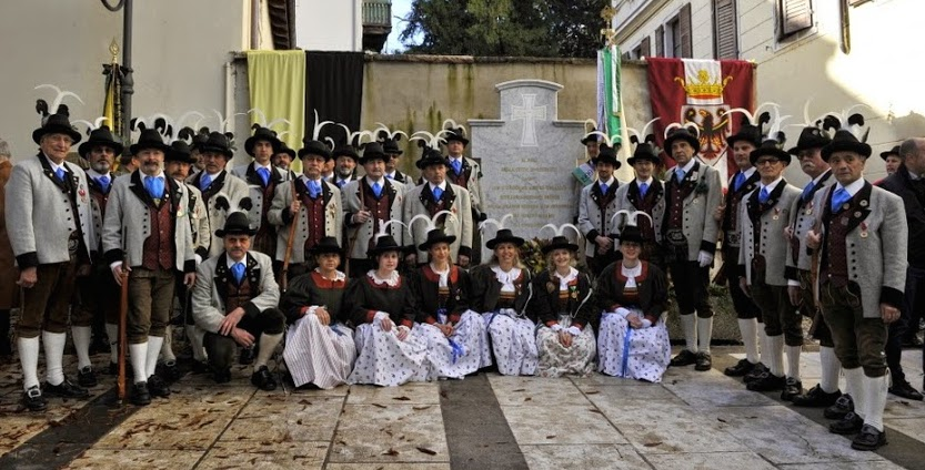 Traditional Tyrolean Schützenkompanie of Rovereto